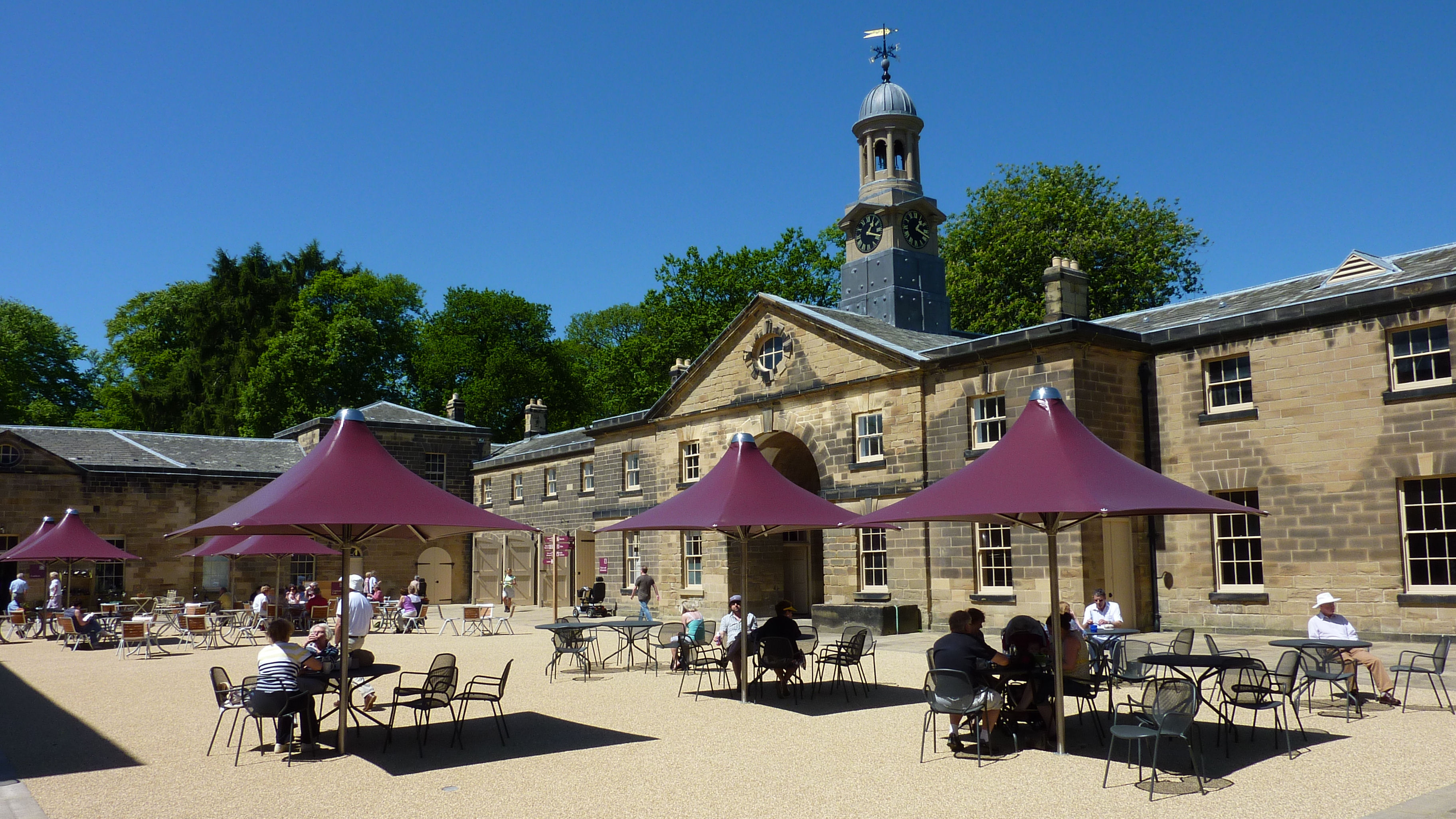 The stables block and courtyard at Nostell Priory (NT) in Yorkshire.